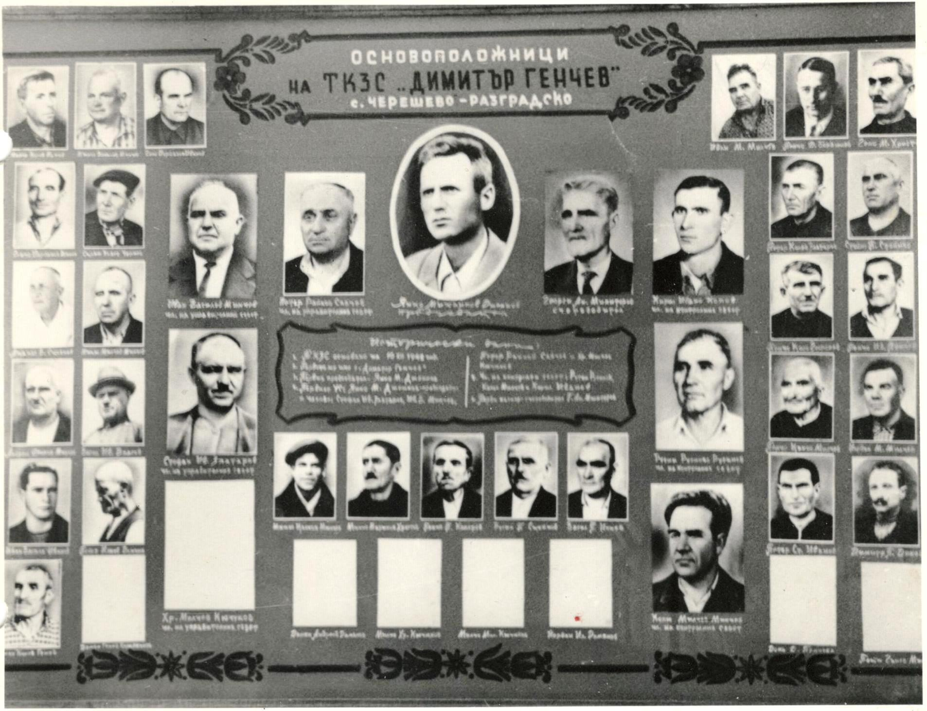 Cooperators that established Labour Agricultural Cooperative Farm in Chereshovo, Ruse province on 16 december 1945.